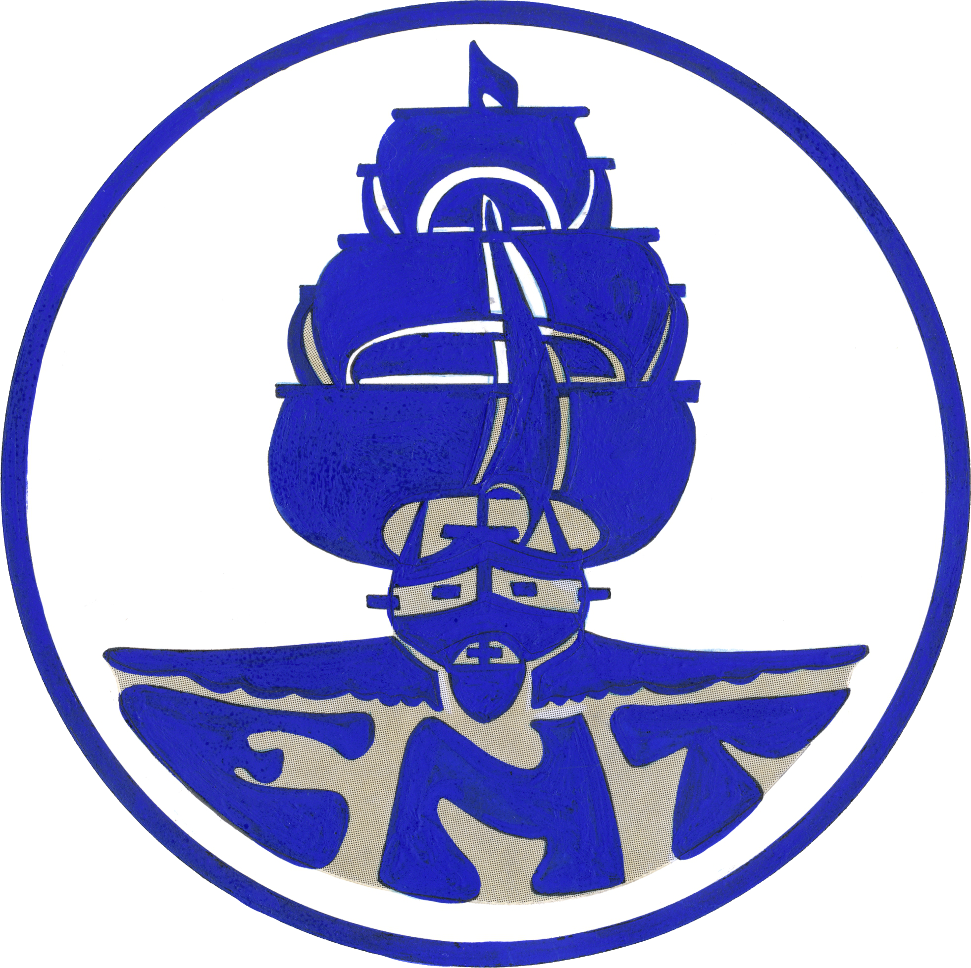 Inisgnia of the U.S. Navy aircraft carrier USS Enterprise (CV-6).